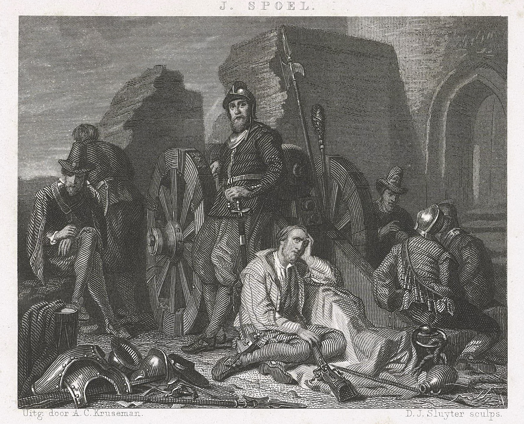 19th-century view of the 1579 Siege of Maastricht, Netherlands. Lithograph by Jacob Spoel & Dirk Jurriaan Sluyter, published by A.C. Kruseman. Collection Rijksmuseum Amsterdam, RP-P-1908-4372.